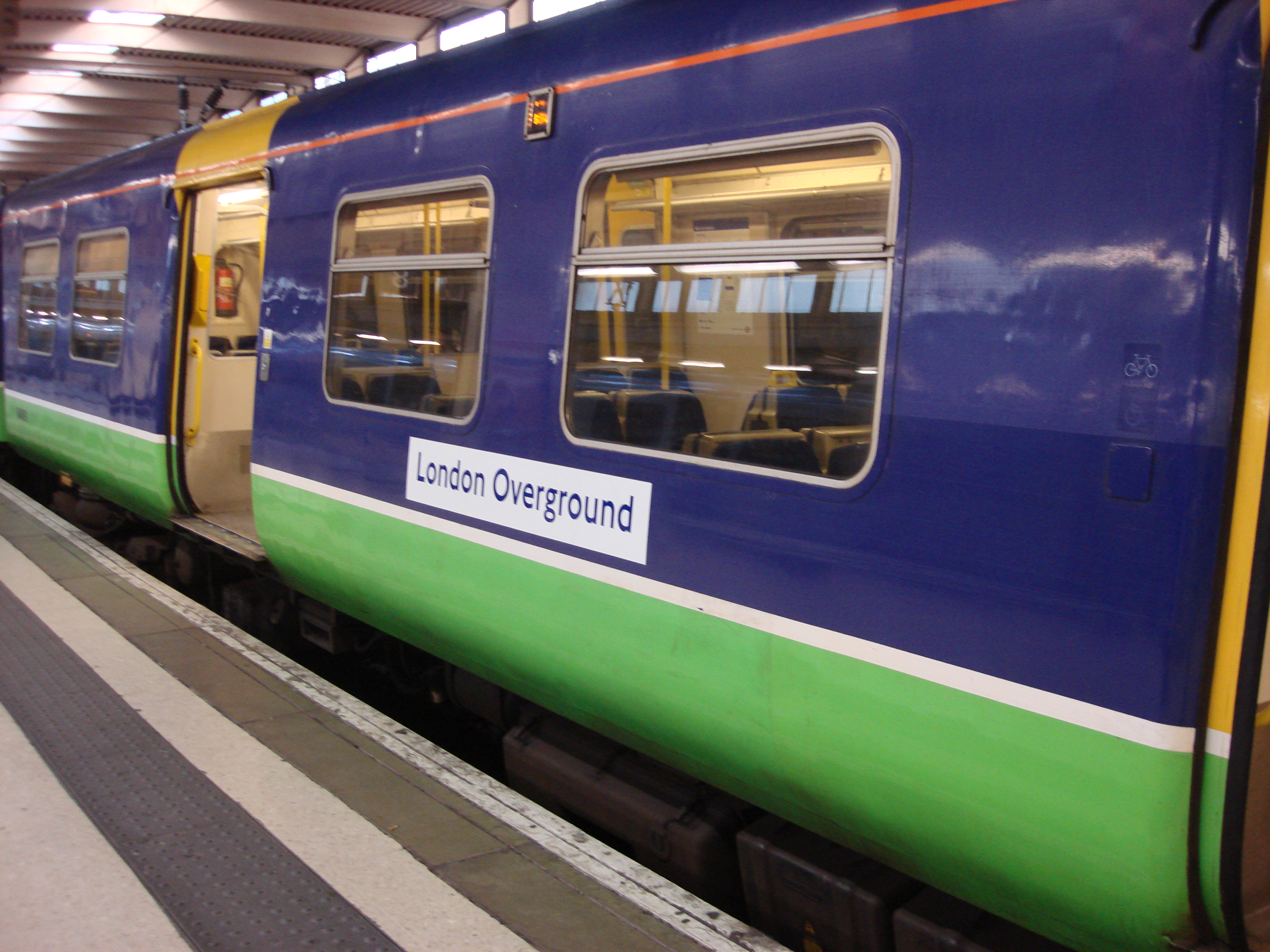 London Overground Branding on 508303 at Euston